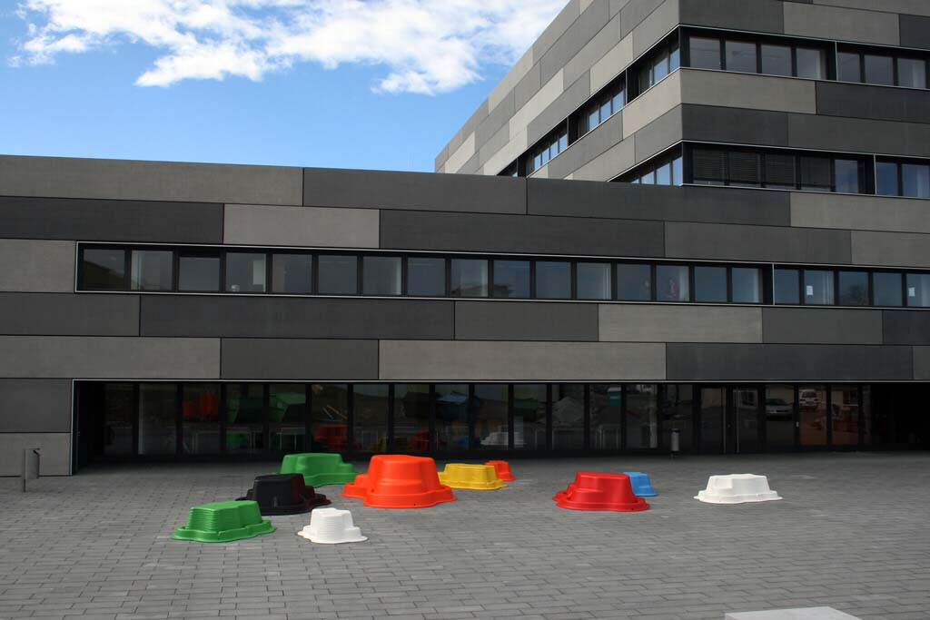 Eberhard Bosslet's biometric sculptures "Stool Archipelago", "Island of Growth", "stump stools" are groups of sculptures made of fibreglass plastic on the basis of known organic forms.